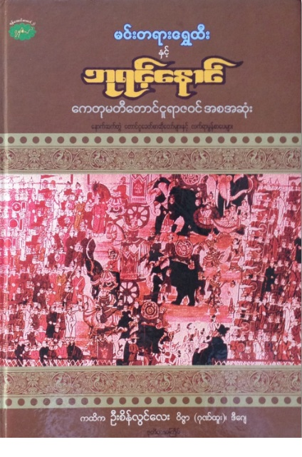 An updated version of Taungoo Yazawin by Sein Lwin Lay